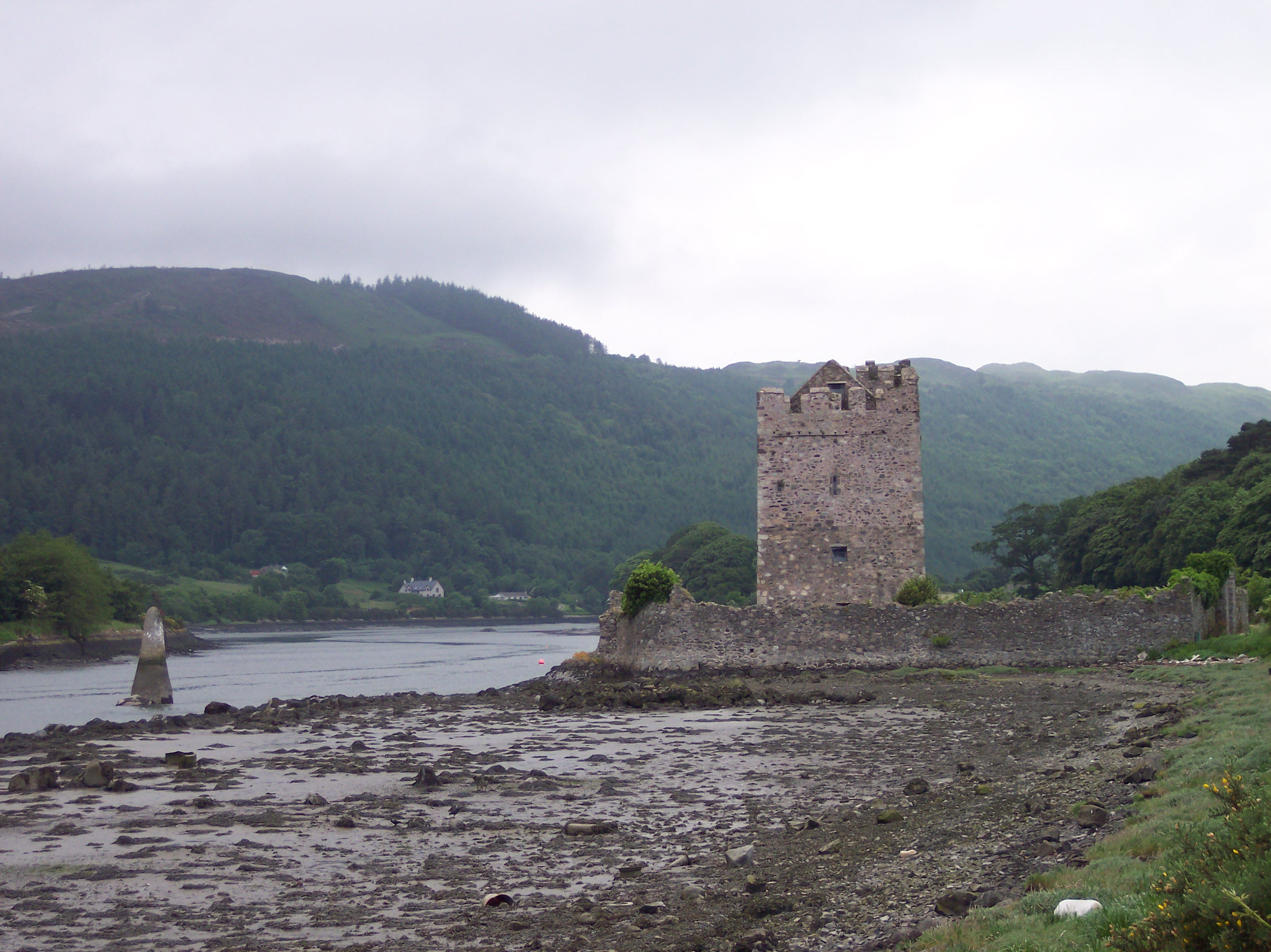 Narrow Water Castle